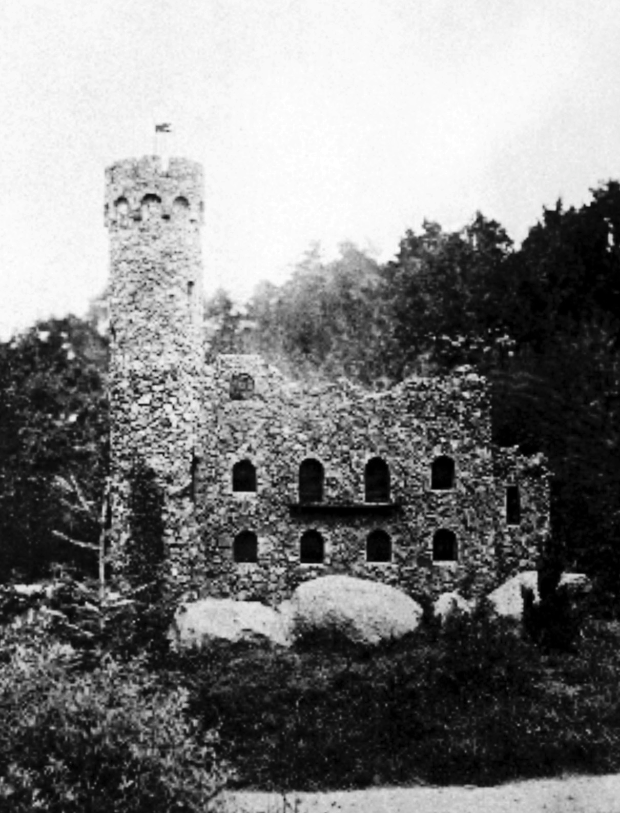 Castle with tower within the private park of Hermann Killisch-Horn (1821–1886) in Pankow near Berlin.